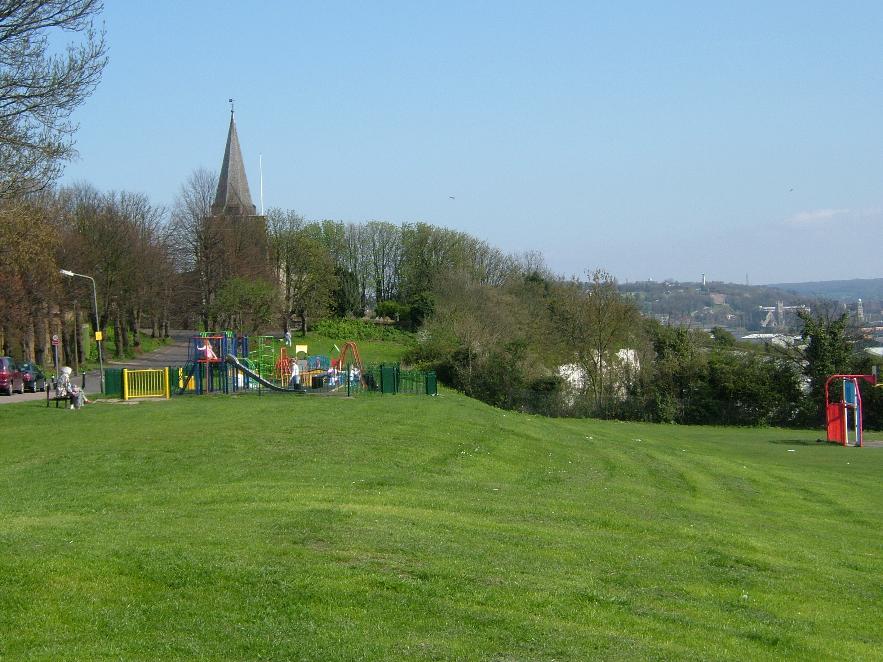 Church Green Frindsbury, showing church, cliffs and vista of Chatham.